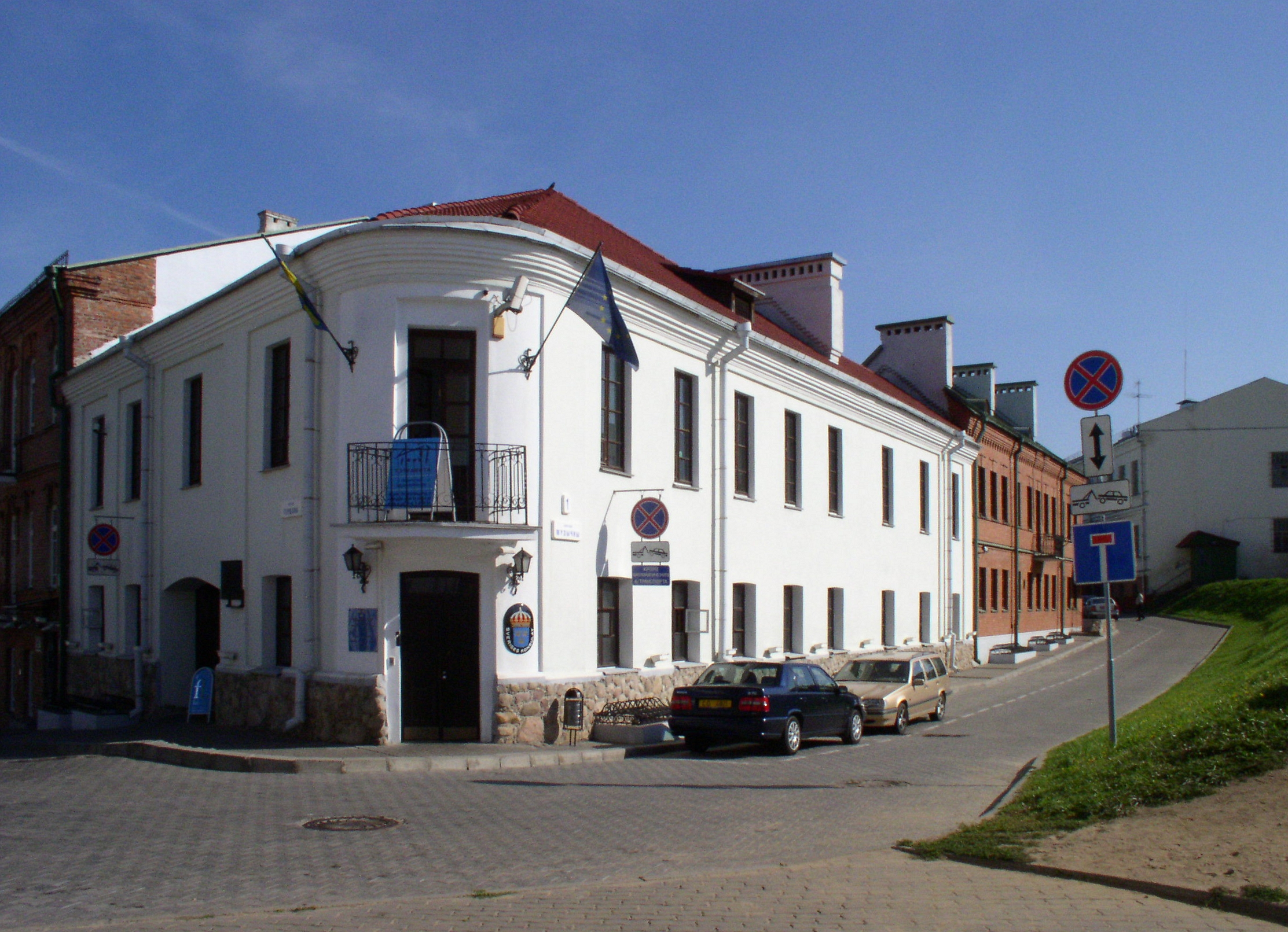 Upper Town streets. Minsk, Belarus.